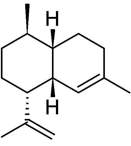 Amorpha-4,11-diene